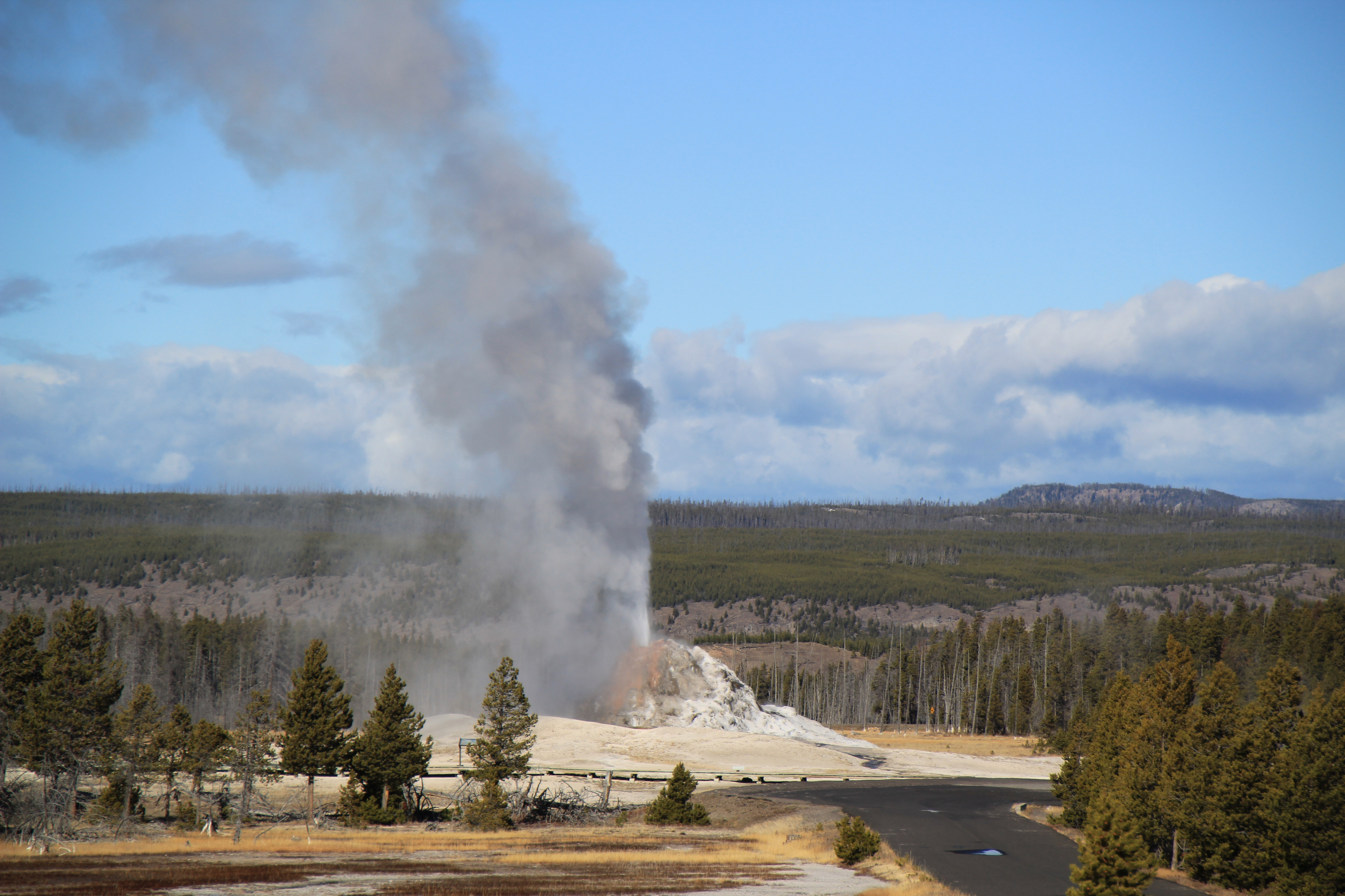 Eruption of White Dome Geyser in Yellowstone Nationalpark